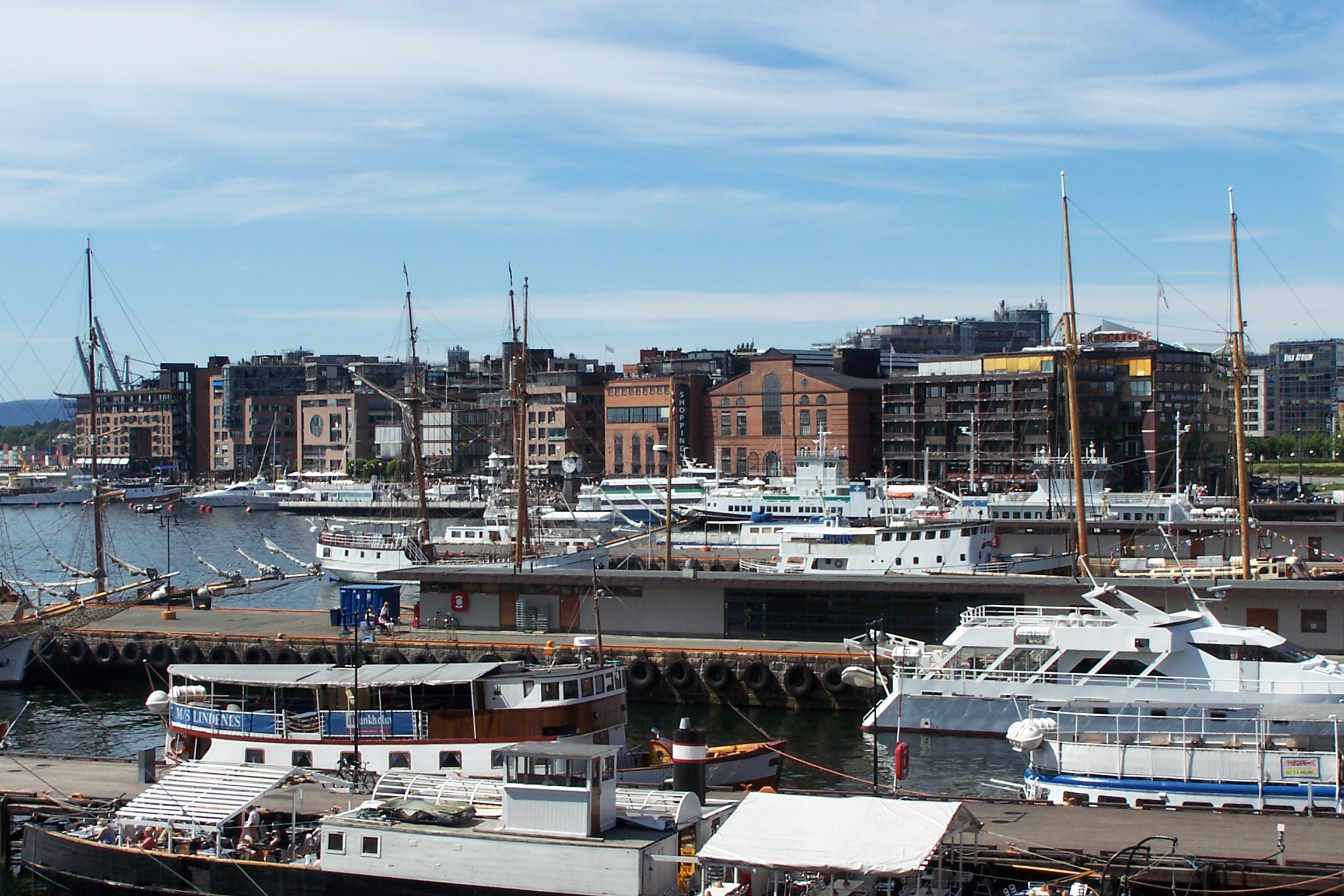 Aker Brygge. Formerly an industrial complex, now a shopping centre and high-prices residences, Oslo